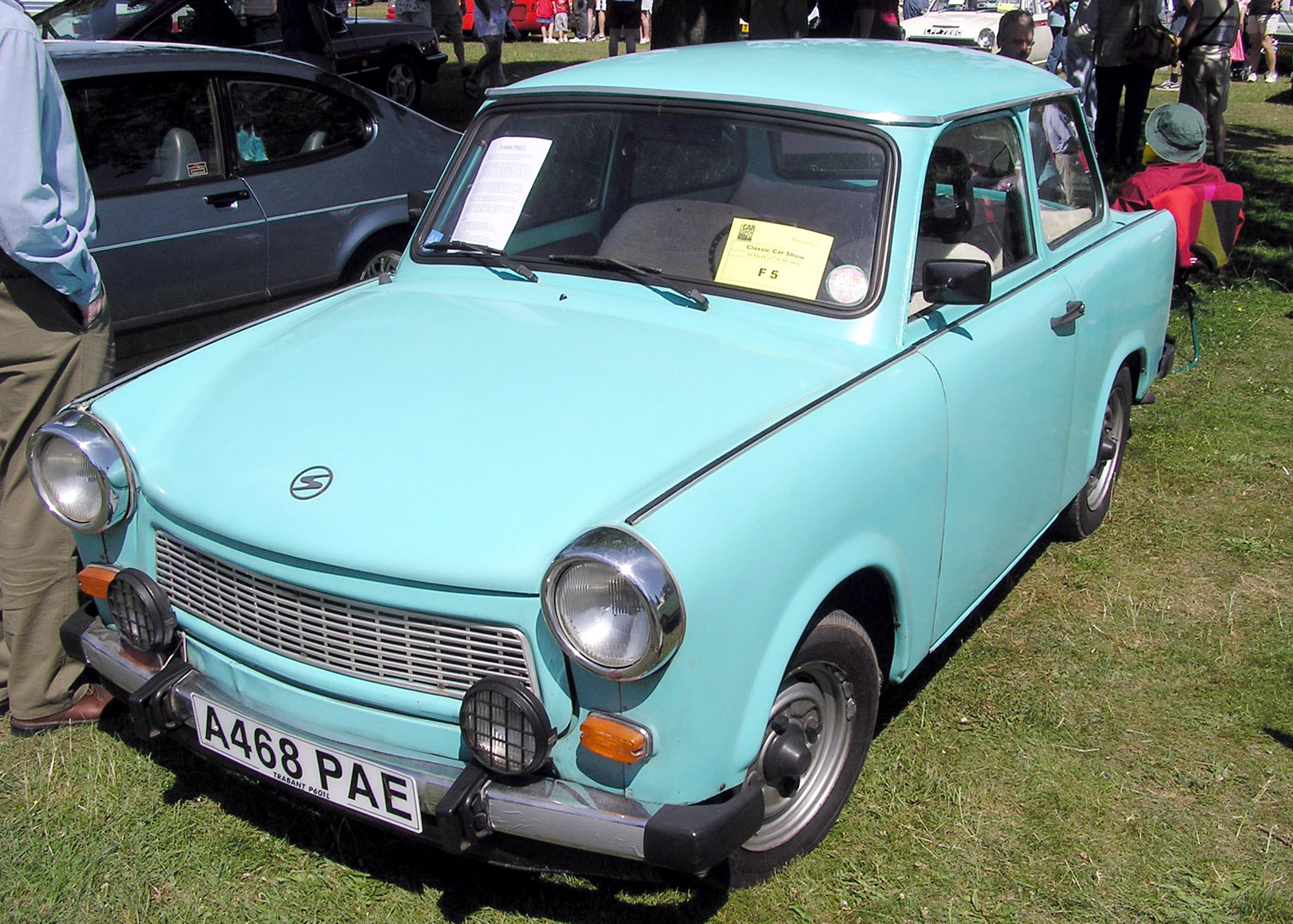 600cc 1983 Trabant P601L at Bristol Car Show, The Downs, Bristol, England. Taken by Adrian Pingstone in June 2004 and released to the public domain.